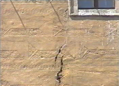 Castle Kaceřov - sgraffito wall decor